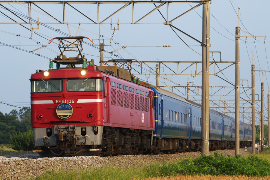 JNR Class EF81 electric locomotive EF81 136 on an Akebono sleeping car limited express service on the Takasaki Line between Shimmachi and Jimbohara stations